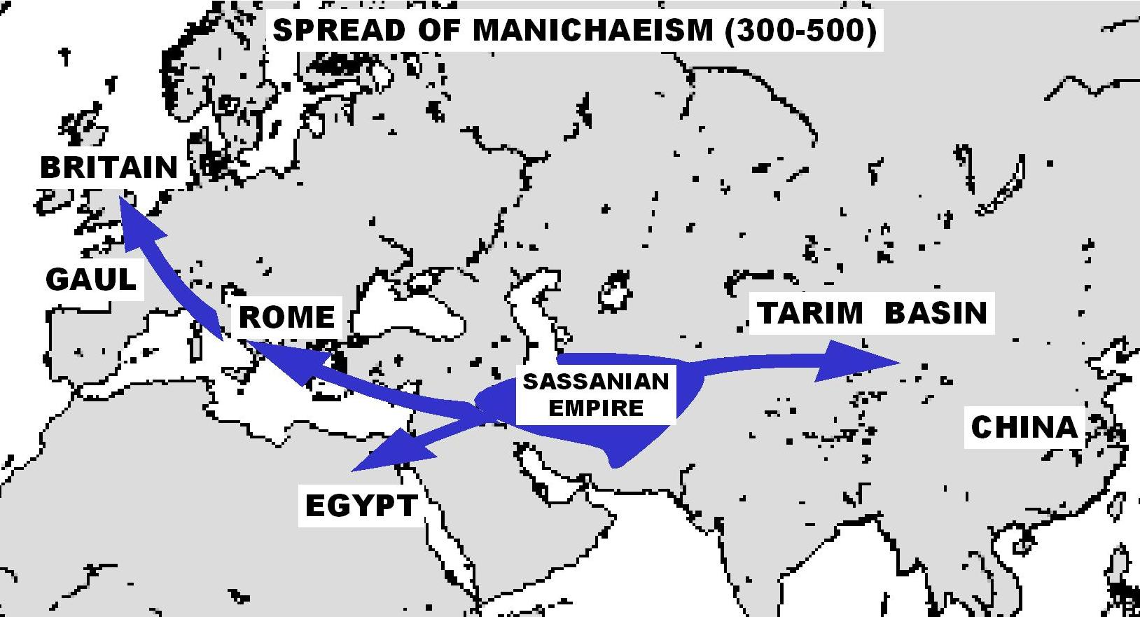 The spread of Manichaeism (300-500 CE).